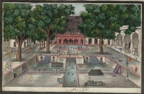 The waterfall, the overflow from the Hauz-i-Shamsi, near the Qutb Minar (right).